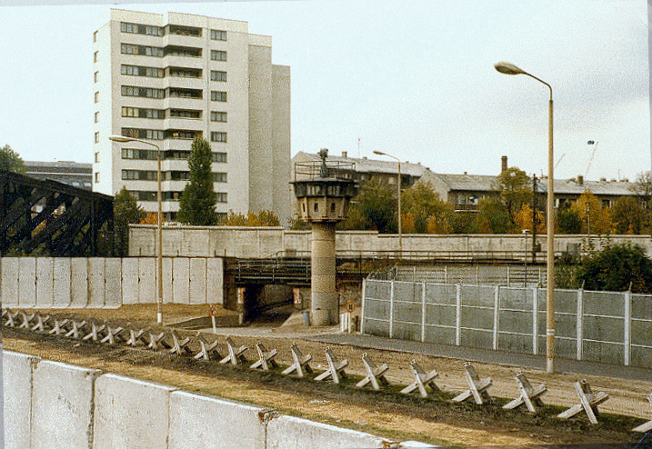 Crossing point of Berlin S-Bahn from West to East Berlin at Liesenstrasse-Gartenstrasse junction, 1980